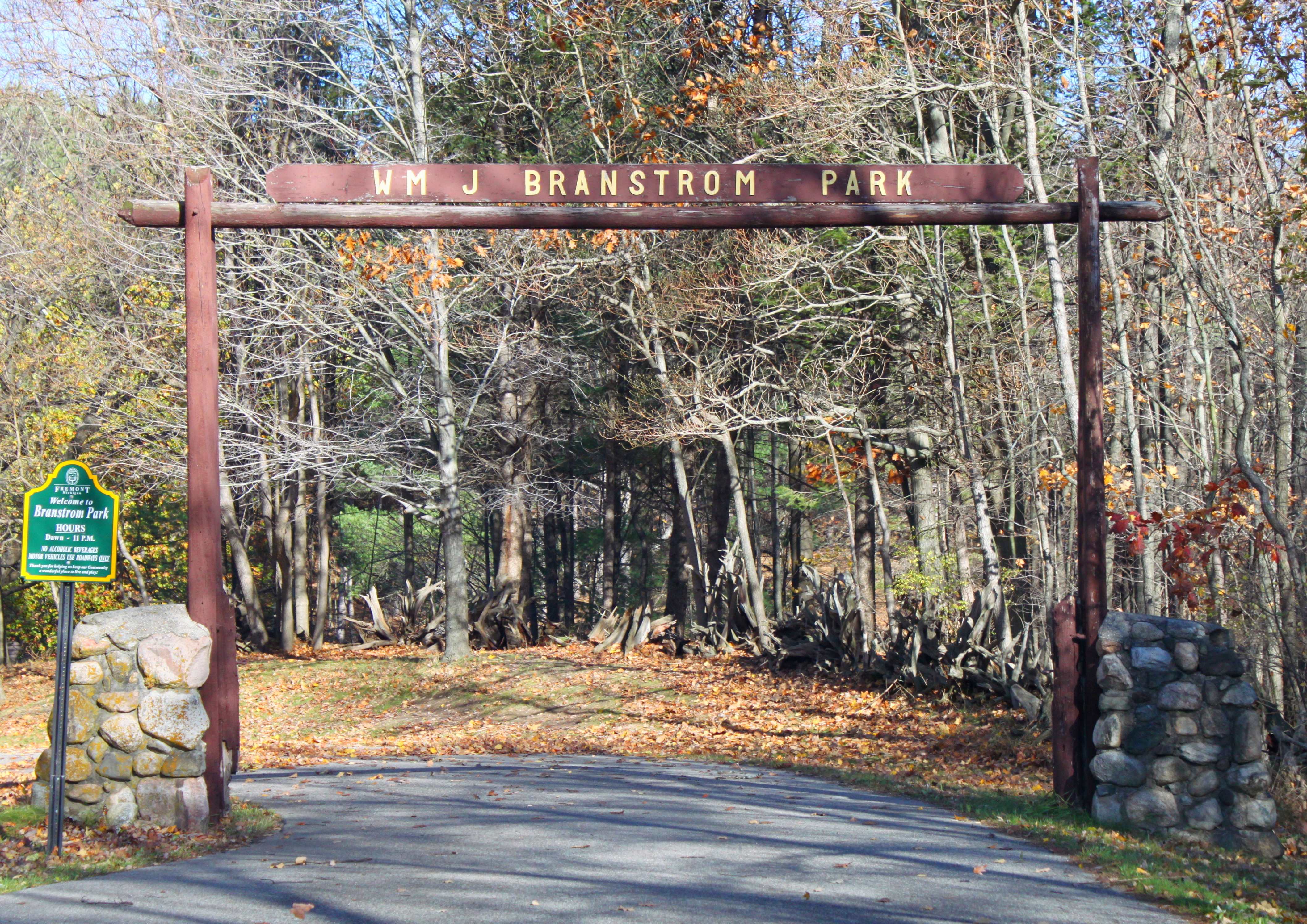 This is a picture of the entrance to Branstrom Park. It is located in Fremont, Michigan.